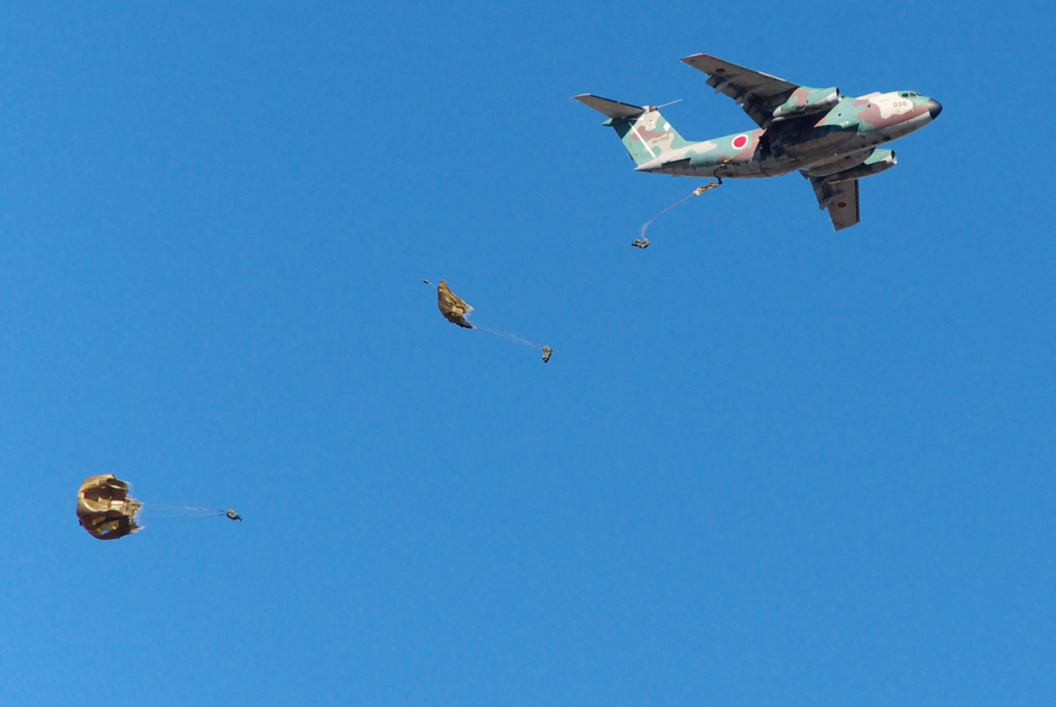 In Narashino,Japan,JGSDF 1st Airborne Brigade 2009 first drop manuver.11-Jan-2009.JASDF C-1&Paratroopers.Taken by Los688.PD-self